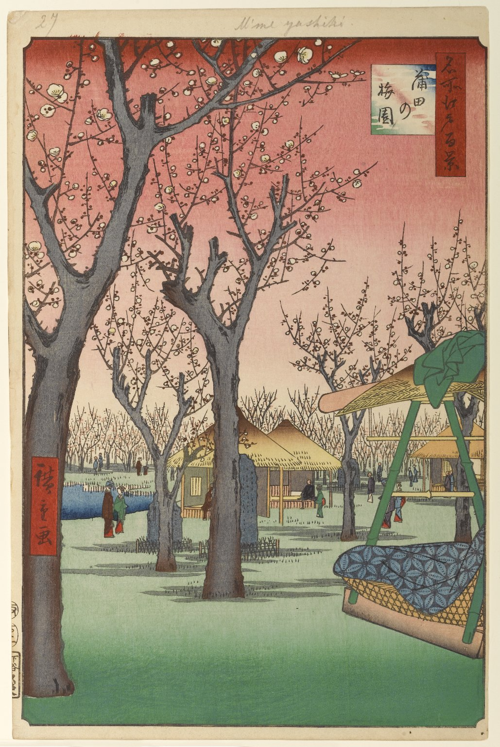 Part of the series One Hundred Famous Views of Edo, no. 027, part 1: Spring.